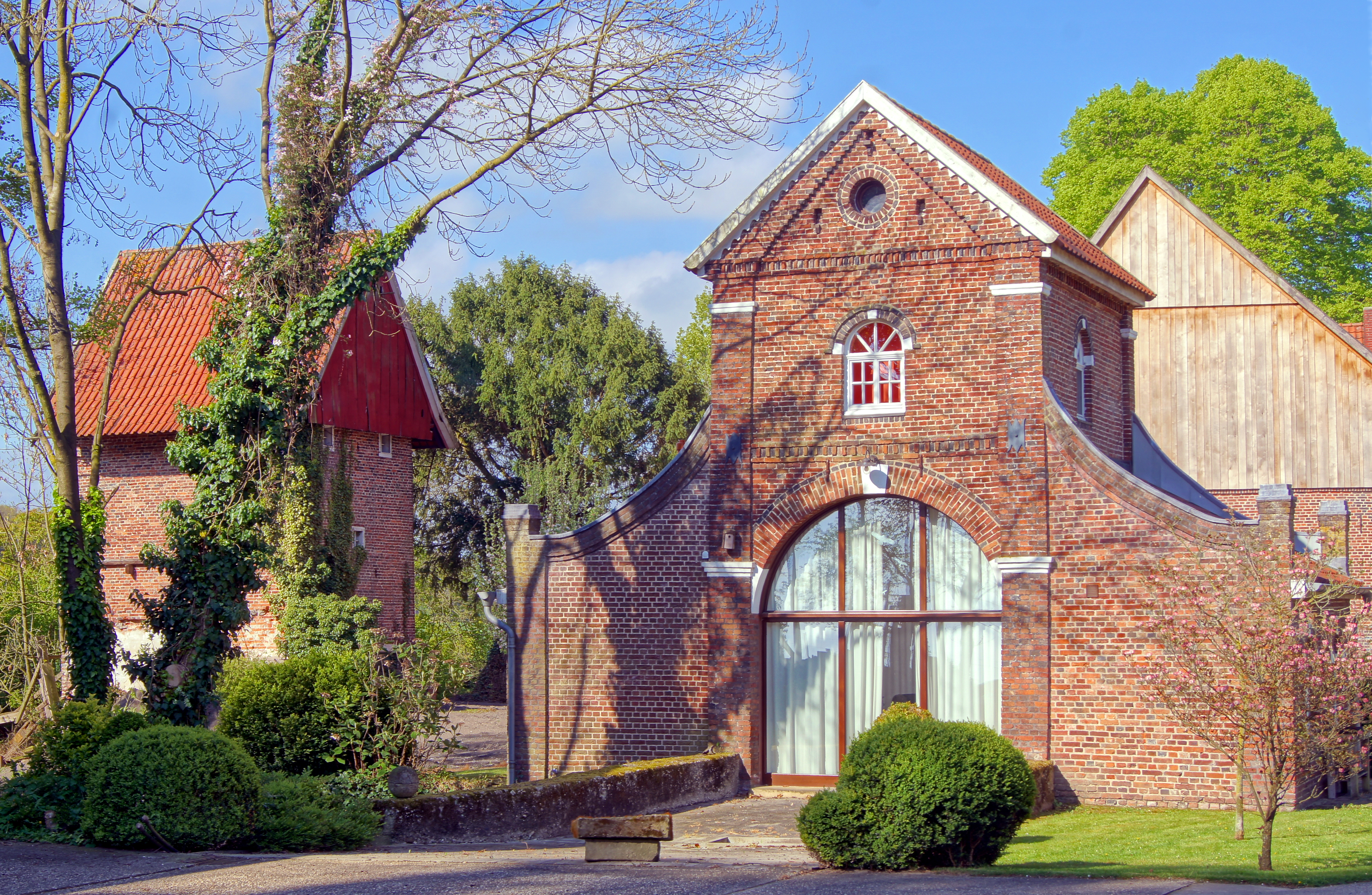 Historic gatehouse and medieval granary at the water moated farmhouse Schulze Hessing in Südlohn-Oeding, district of Borken, North Rhine-Westphalia, Germany. This is a photograph of an architectural monument. 14